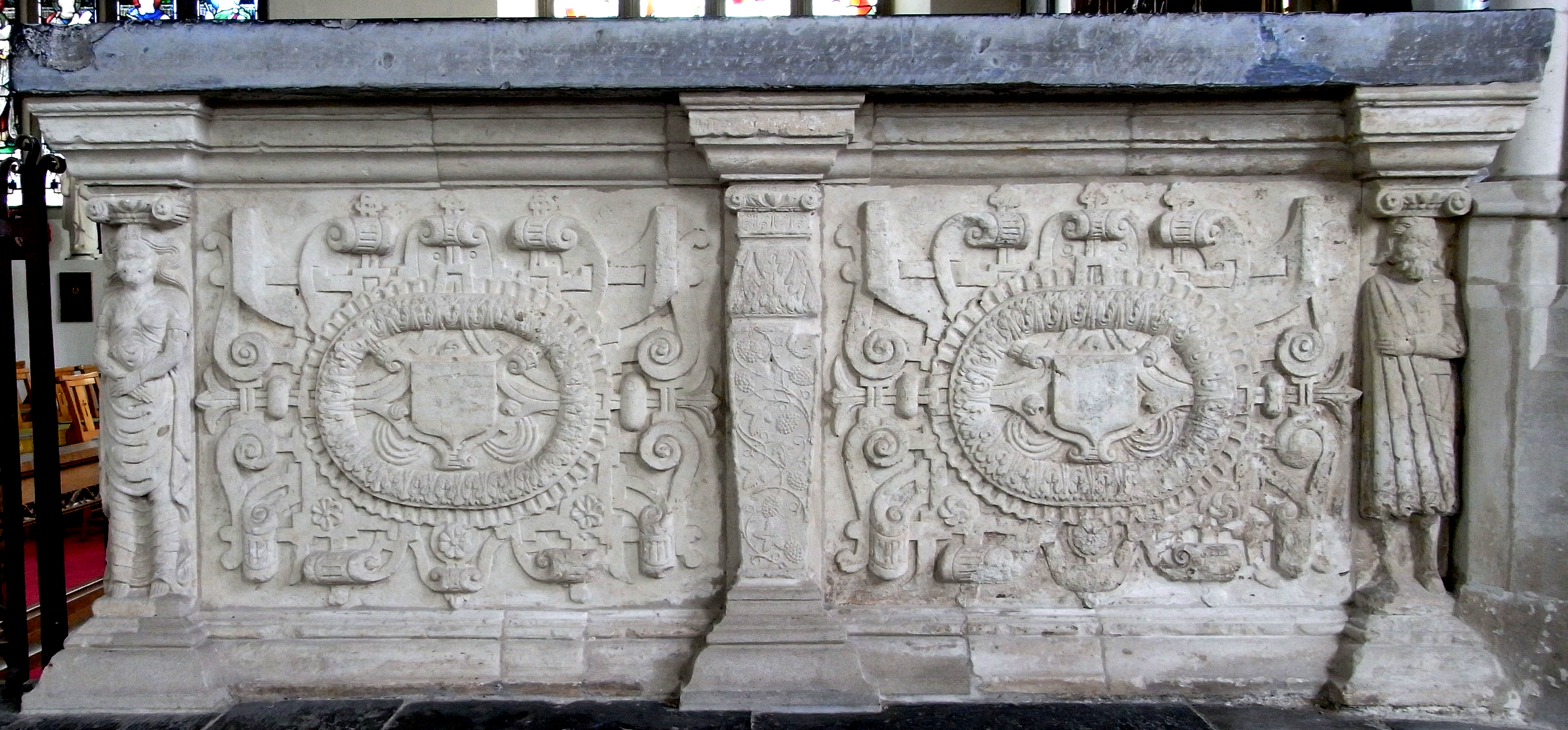 Chest tomb of George Slee (d.1 September 1613), merchant, St Peter's Church, Tiverton, Devon. George Slee of the Great House, Peter Street, Tiverton, was a wealthy merchant and founded Slee's Almshouses, next to his mansion house in Peter Street. The sides of the chest tomb are decorated with strapwork panels. Also displays Caryatids in the form of natives of the New World, or possibly Africa, with which regions he traded.